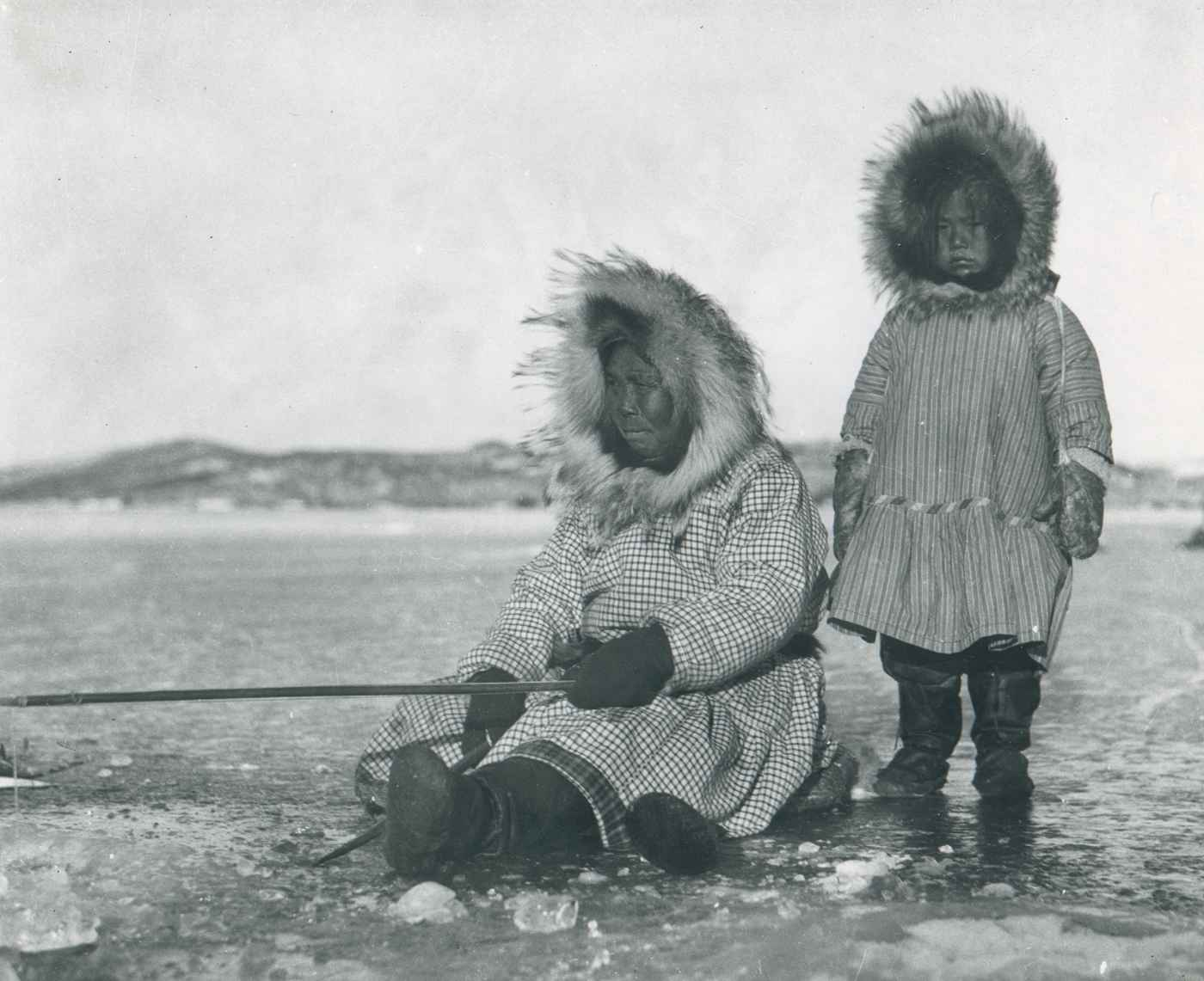 Image title: Eskimos woman and girl ice fishing Image from Public domain images website